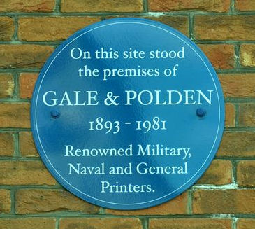 The blue plaque on the site of the former works of Gale & Polden in Aldershot in Hampshire